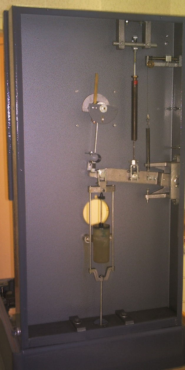 Tacho post office scale, rear housing opened